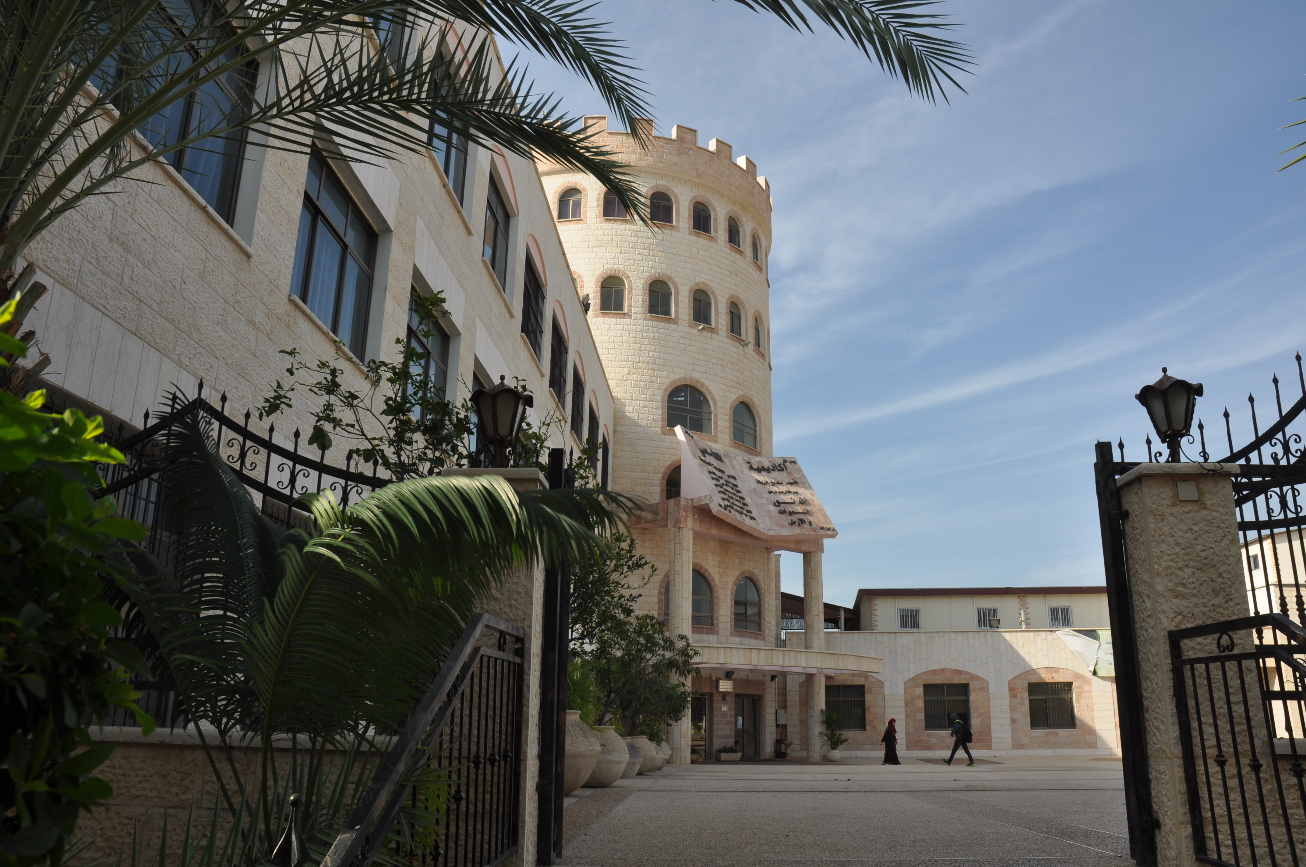 Al-Qasemi College main building